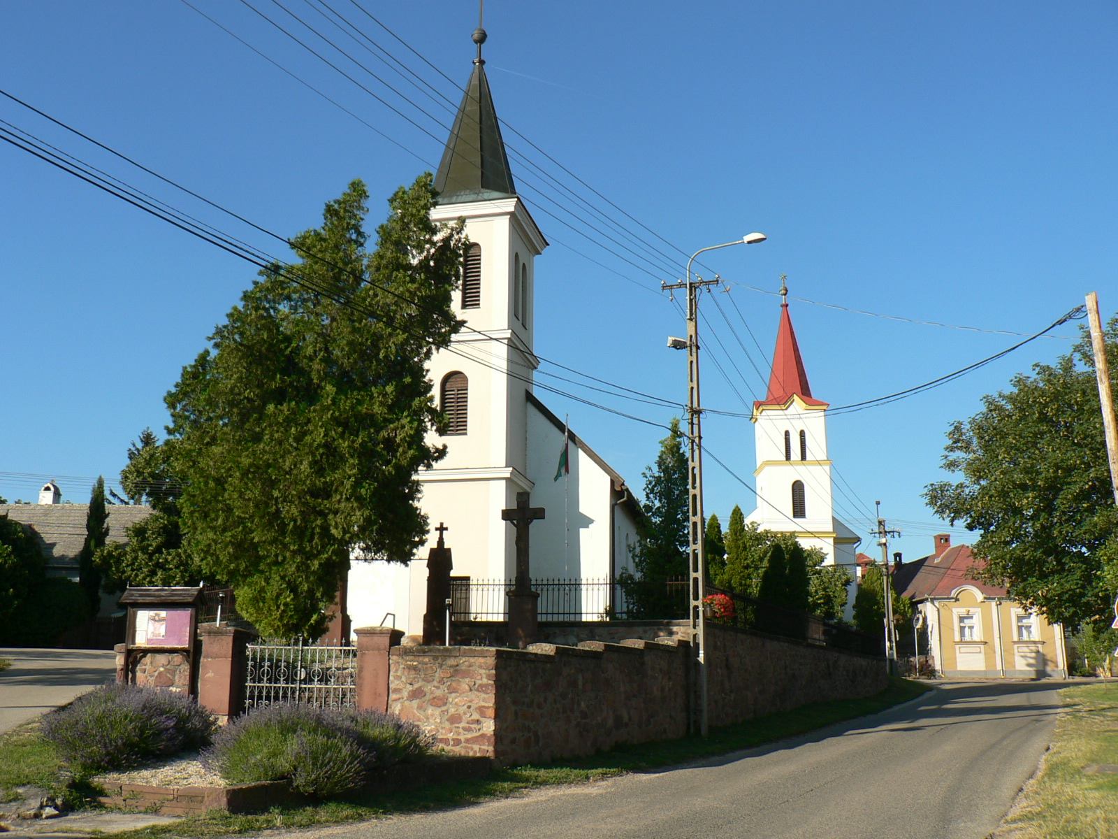 Lovas központja a két templommal